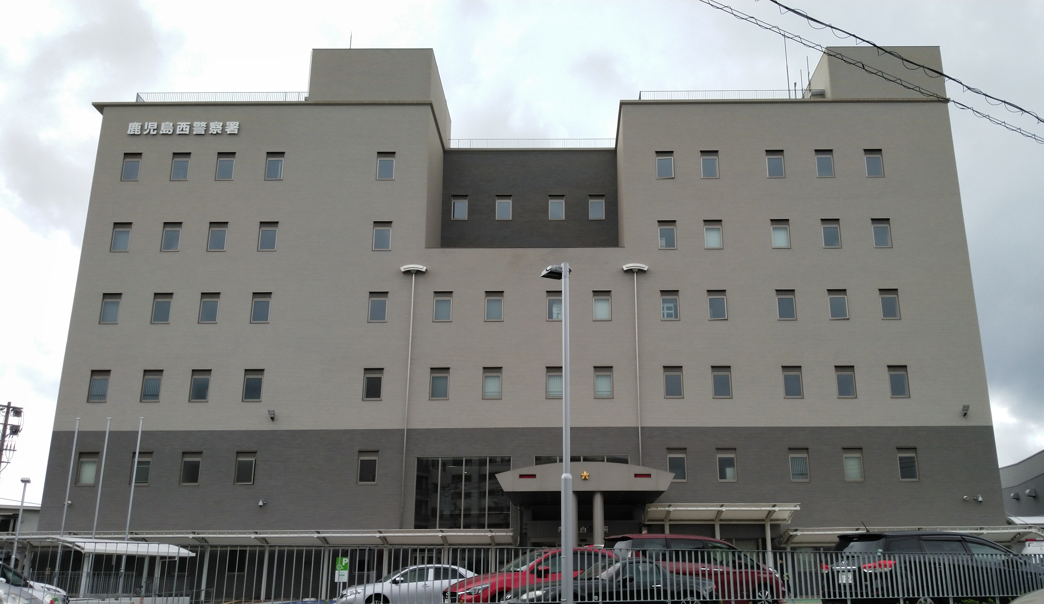 New building of Kagoshimanishi Police Station in Kagoshima, Kagoshima, Japan.